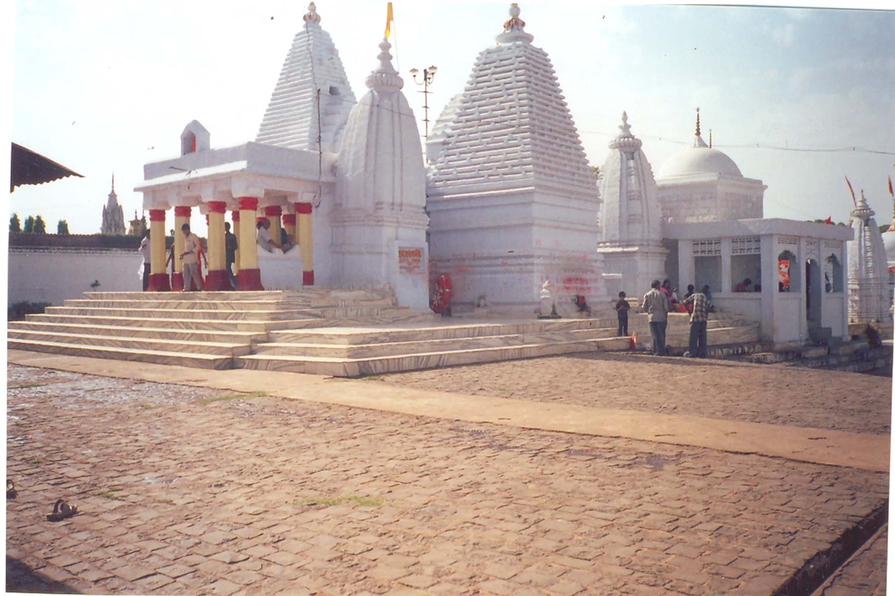 Image of Narmadakund and temples, the origin of Narmada River in India created by LRBurdak self created